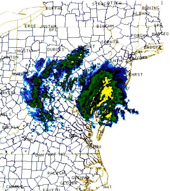 Cropped image of a radar picture of Tropical Storm Danielle making landfall on September 25, 1992